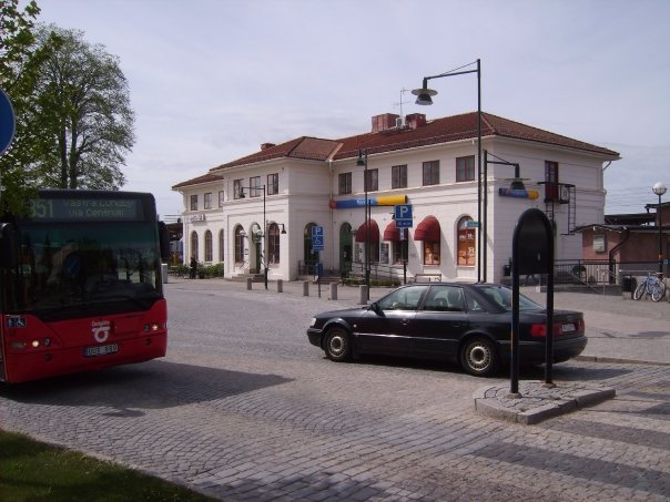 Railway station in Mjölby, Sweden.